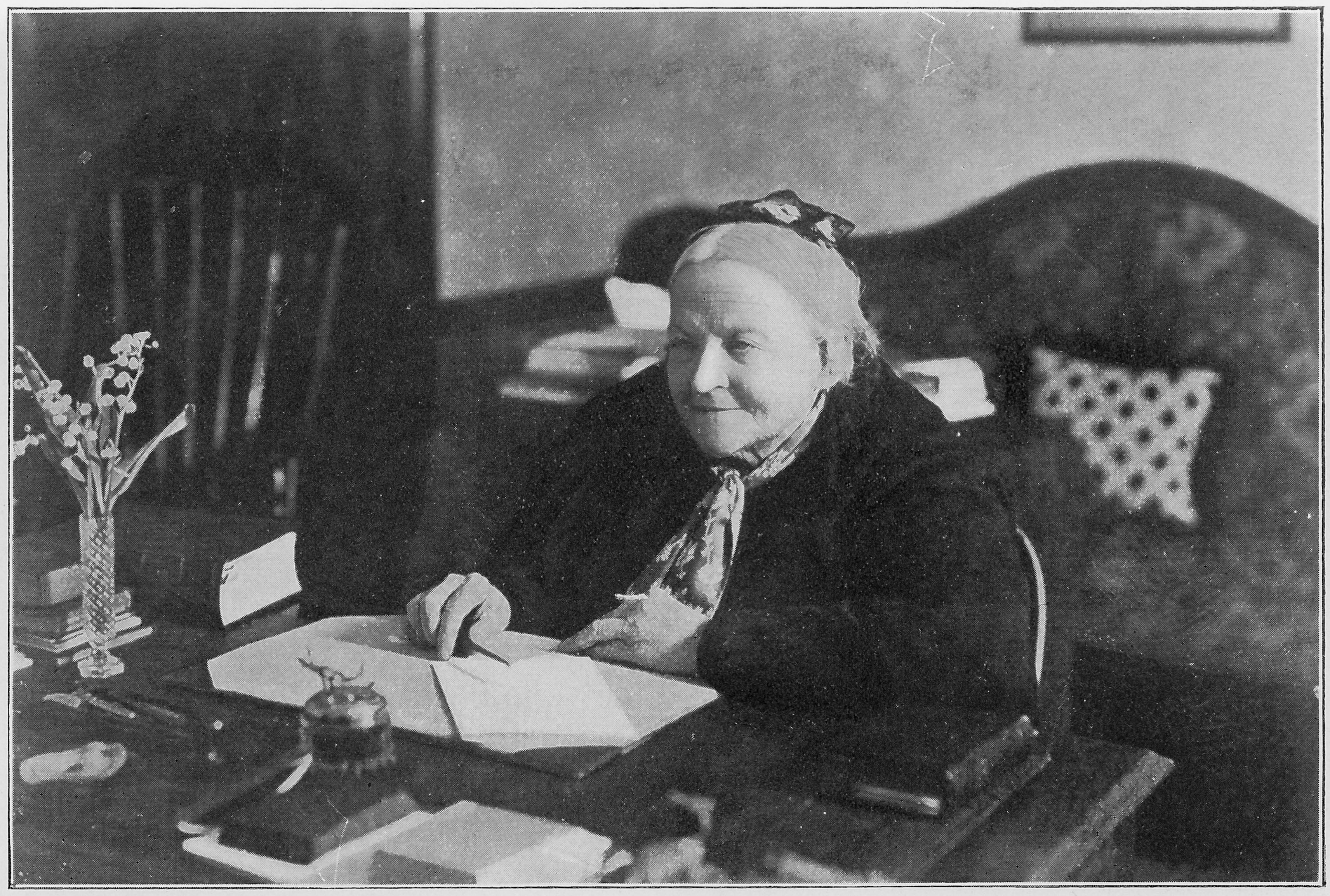 Elsa Borg, born July 19, 1826, died February 24, 1909, in work at the Mission of Vita Bergen in Stockholm 1876-1909